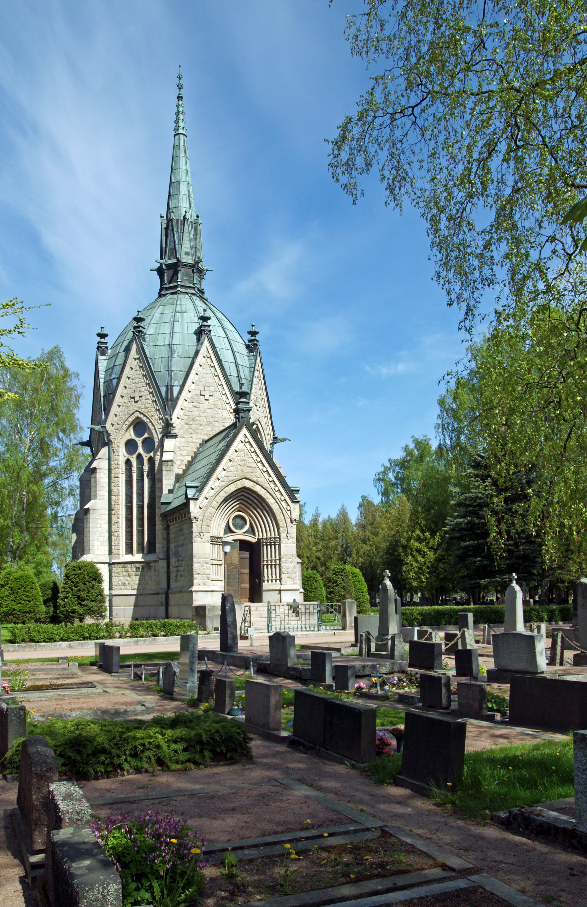 Juselius mausoleum in Pori, Finland.